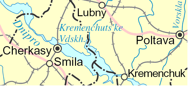 Map of Kremenchuk Reservoir, Ukraine Adapted from